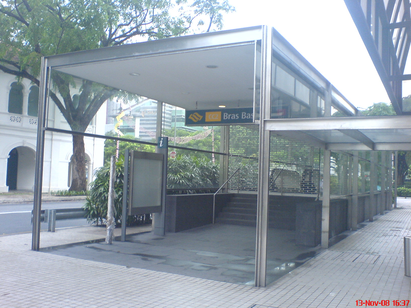 A station exit of the Bras Basah MRT Station of the Circle Line.